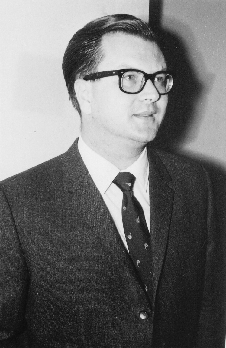 Joseph Wloka, Mathematisches Forschungsinstitut Oberwolfach, 1967